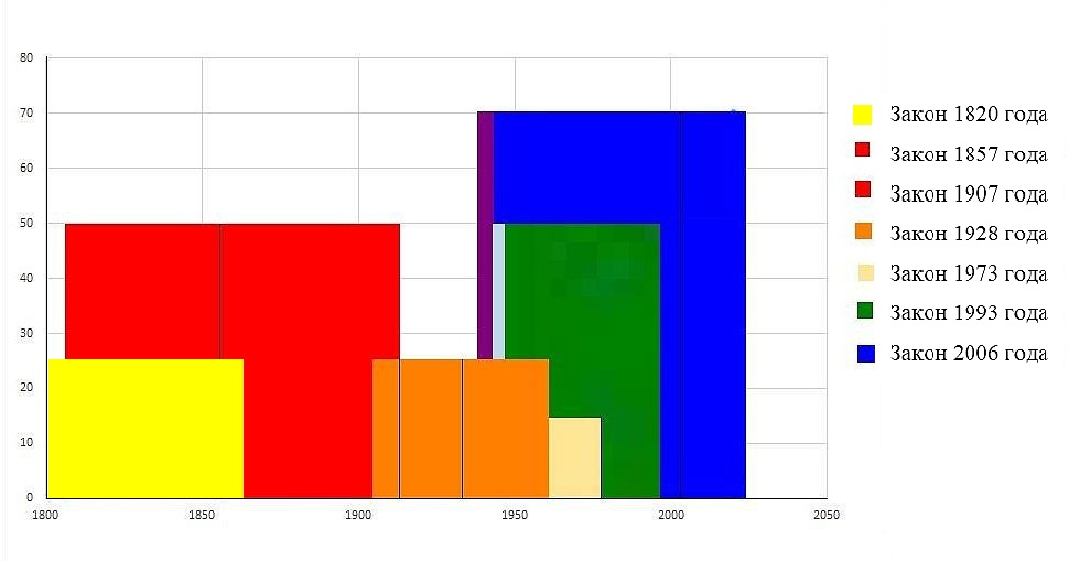 Copyright lengths in RF